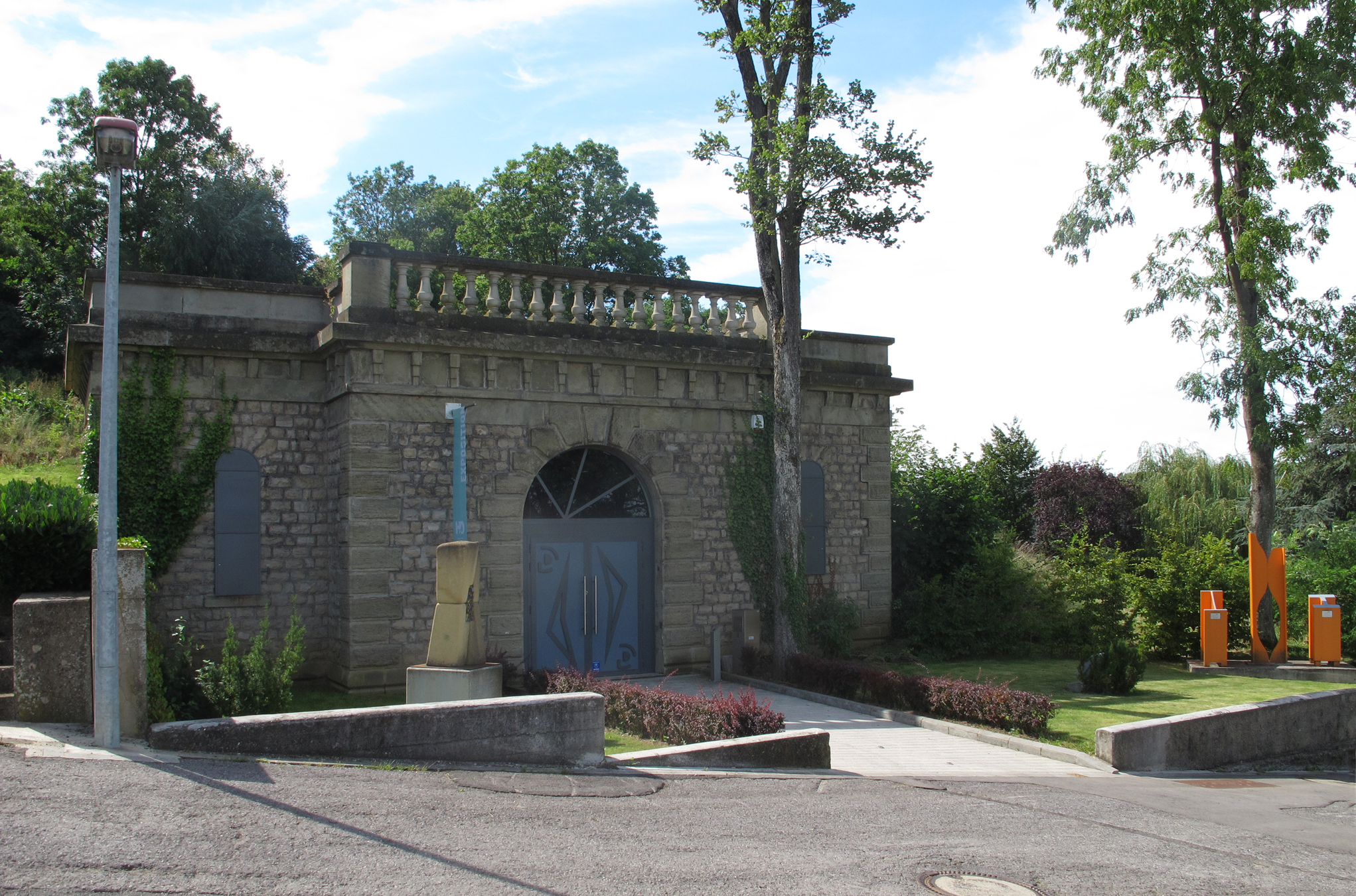 Espace H2O in Oberkorn, Luxembourg